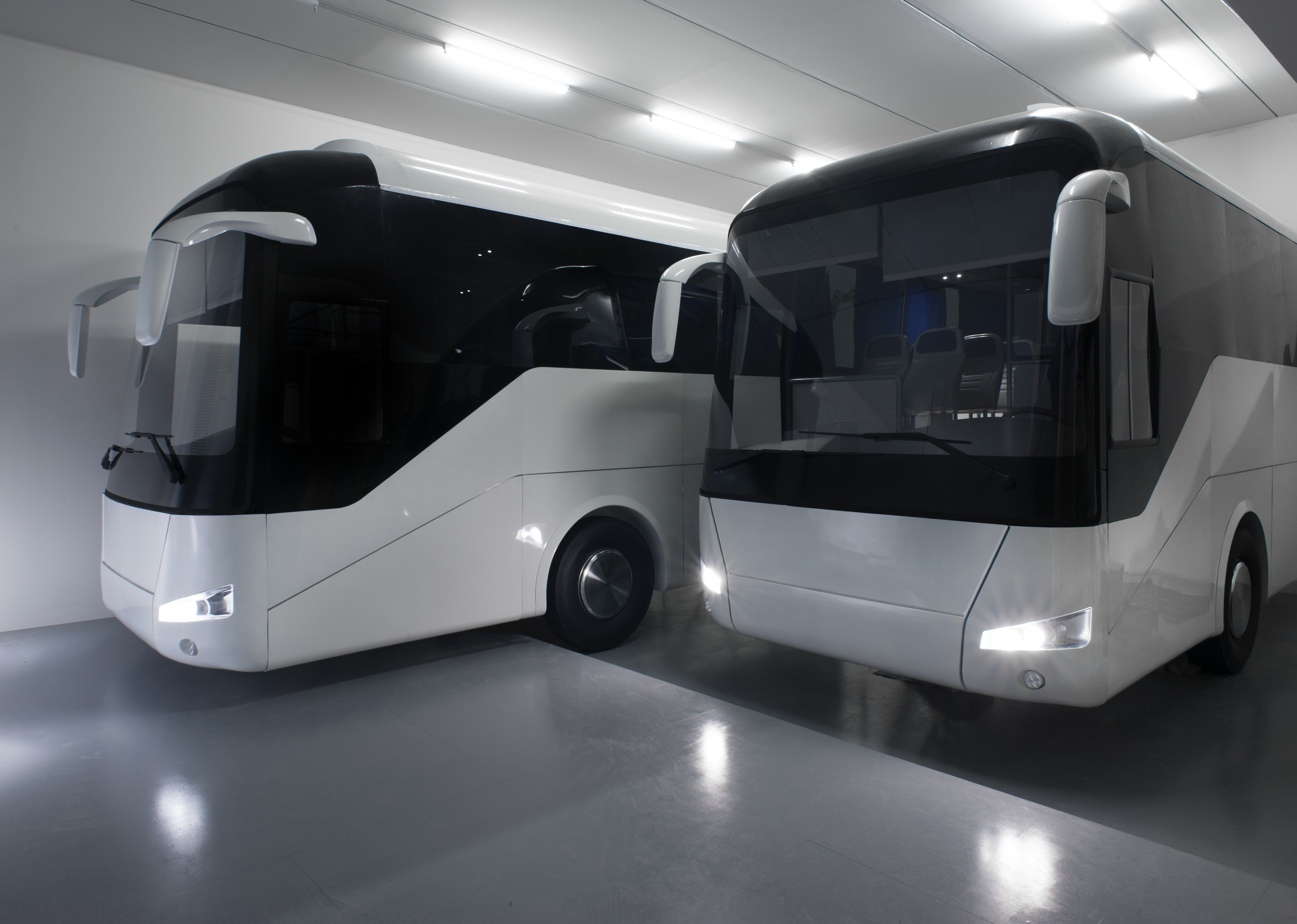 Gil Marco Shani Busses Installation, 2018, Israel Museum, View 1